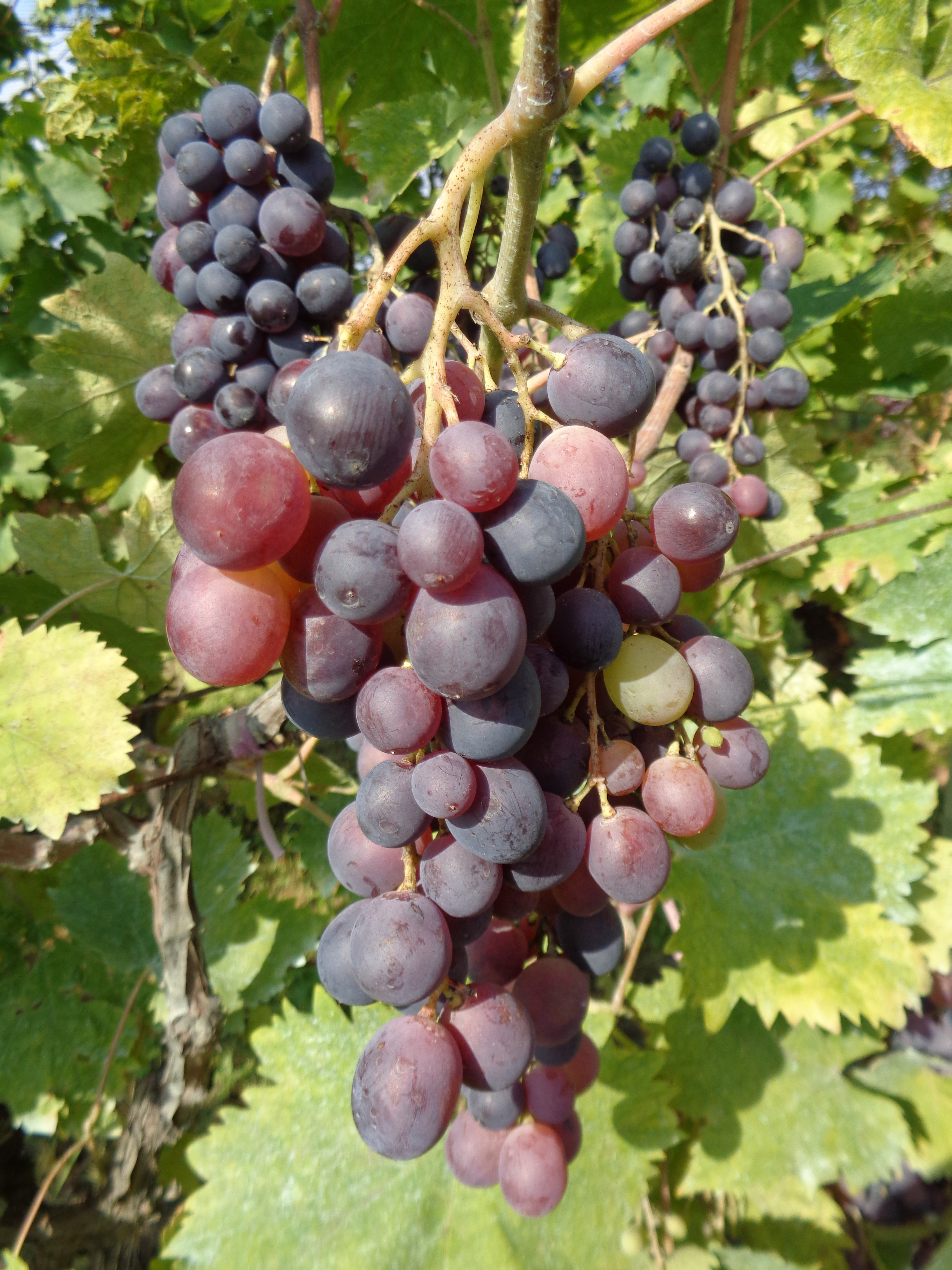 Muscat of Hamburg, black grape variety - ripening in Medjimurje County, northern Croatia (2016)